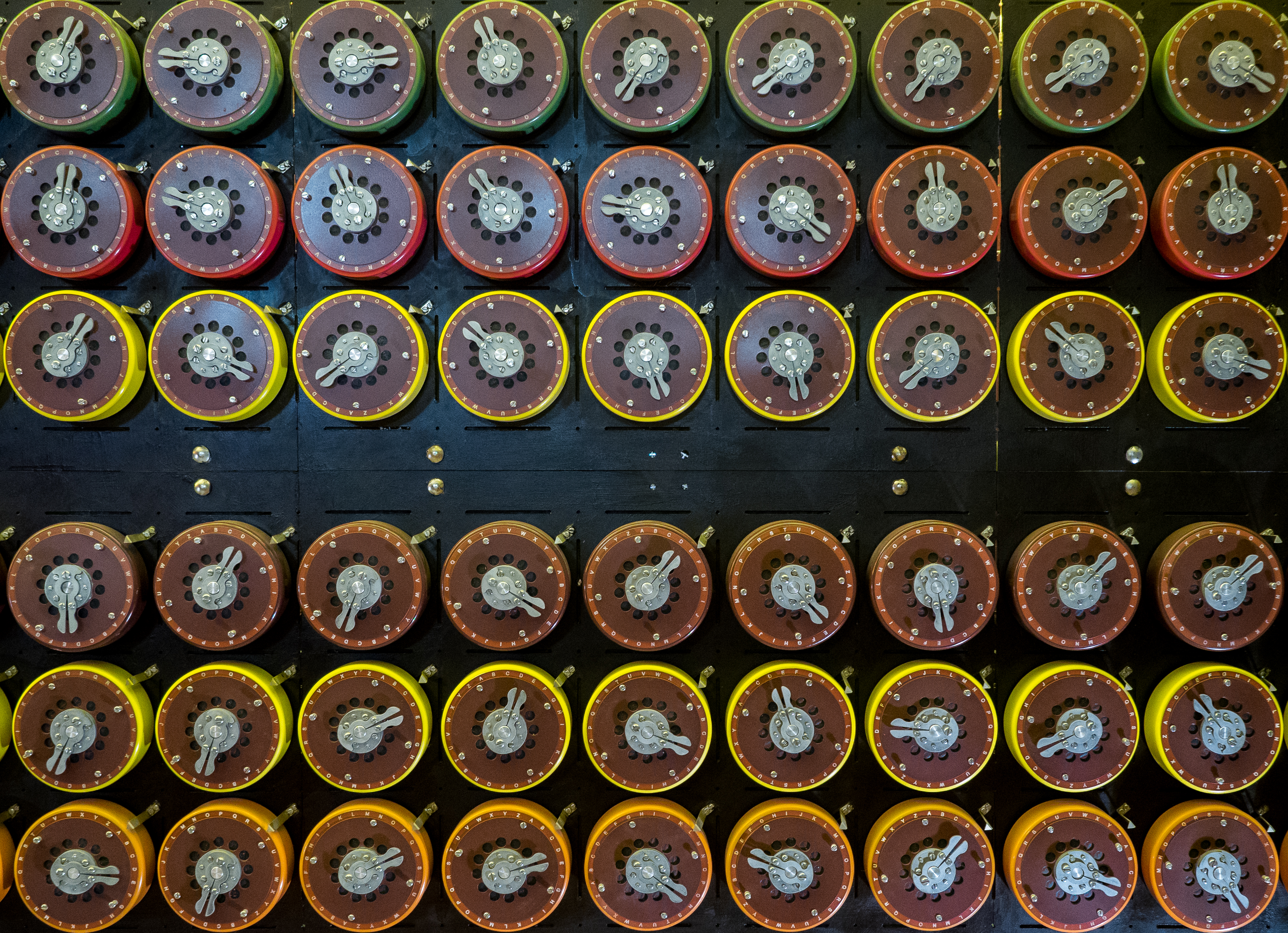 Christopher (the bombe machine) from the film The Imitation Game, Bletchley Park, Bletchley, Milton Keynes, Buckinghamshire, England